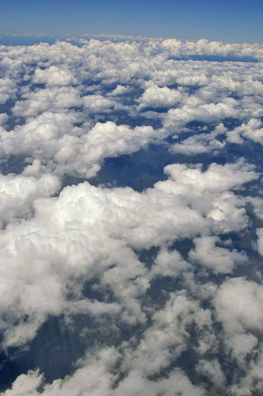 Looking over Cumulus mediocris clouds over south-east New South Wales.